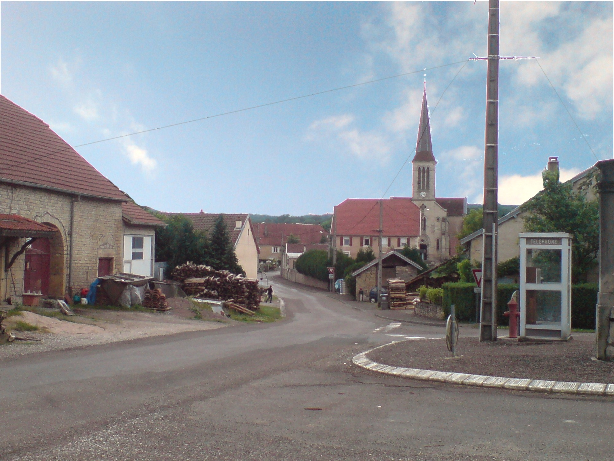 This is a view of Adelans form the main road.